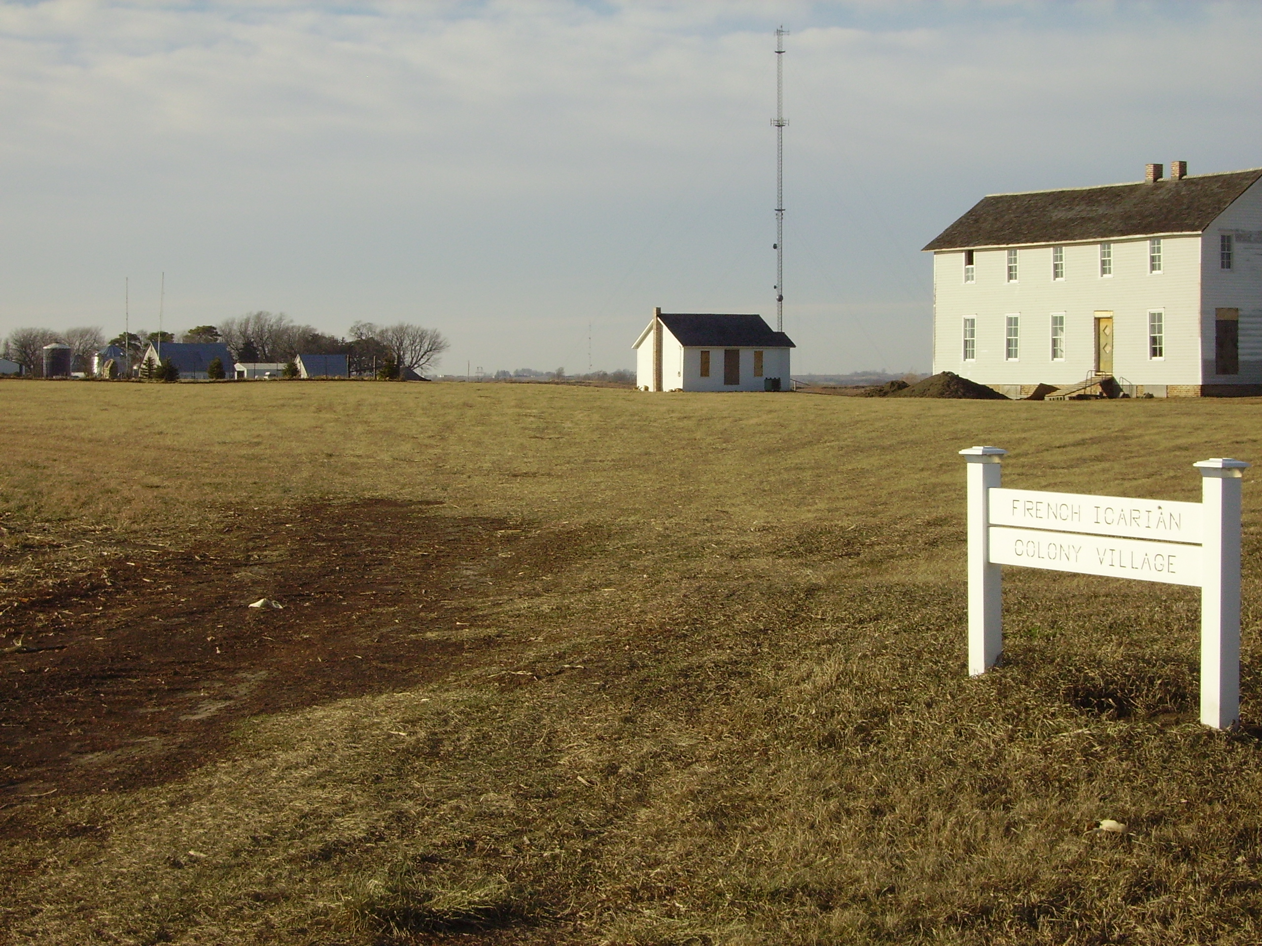 taken on site by Alexander von Thorn, December 2006 uploaded directly from personal digital photo archive